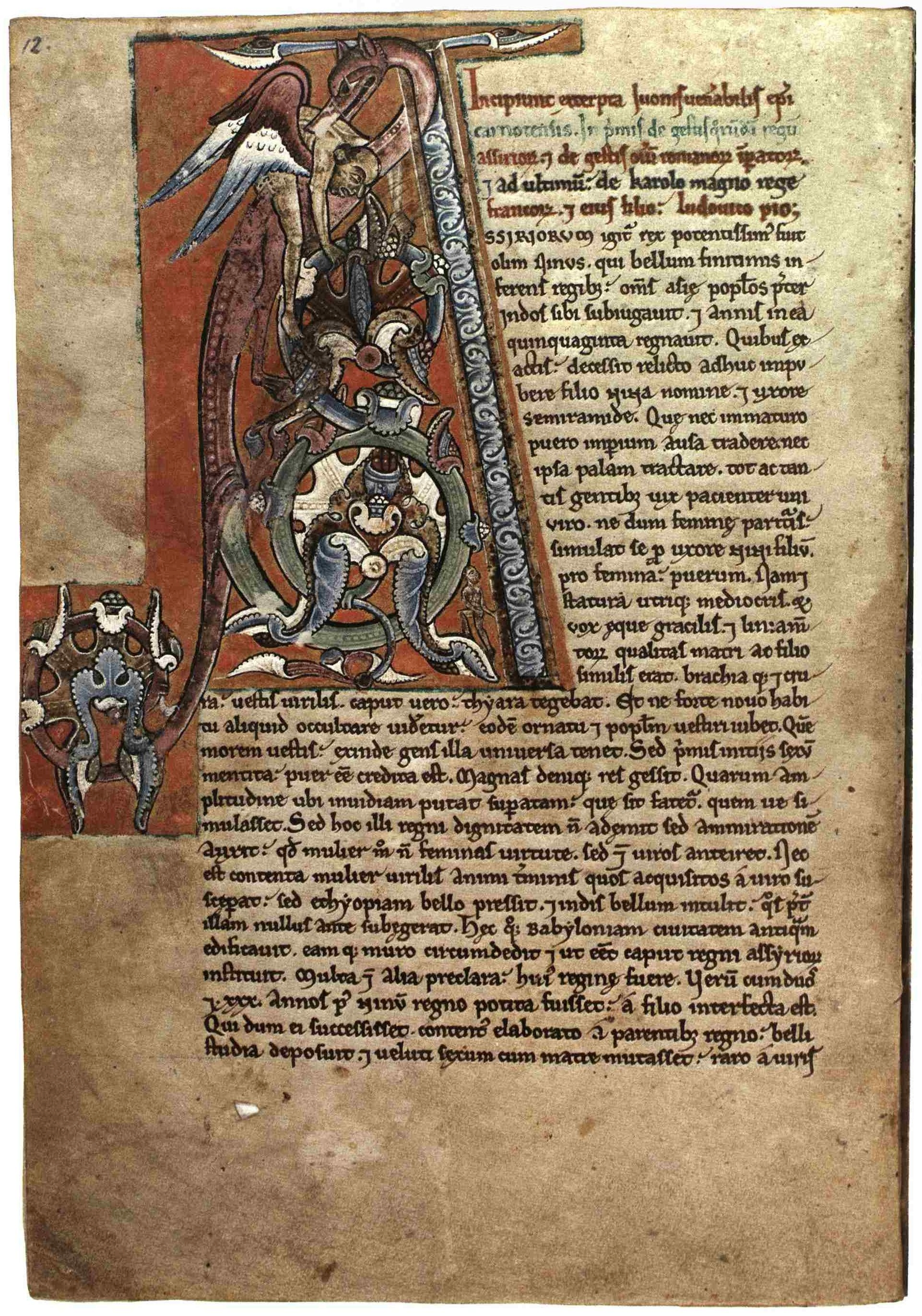 The beginning of the second redaction of Hugh’s chronicle (ecclesiastical history), here wrongly attributed to Ivo, bishop of Chartres, in the manuscript Vienna, Österreichische Nationalbibliothek, Cod. 561, fol. 1v.